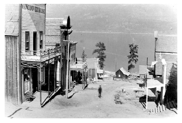 Photographer:Unknown Photo taken:1894 Source:BC Archives #C-07547 [1]